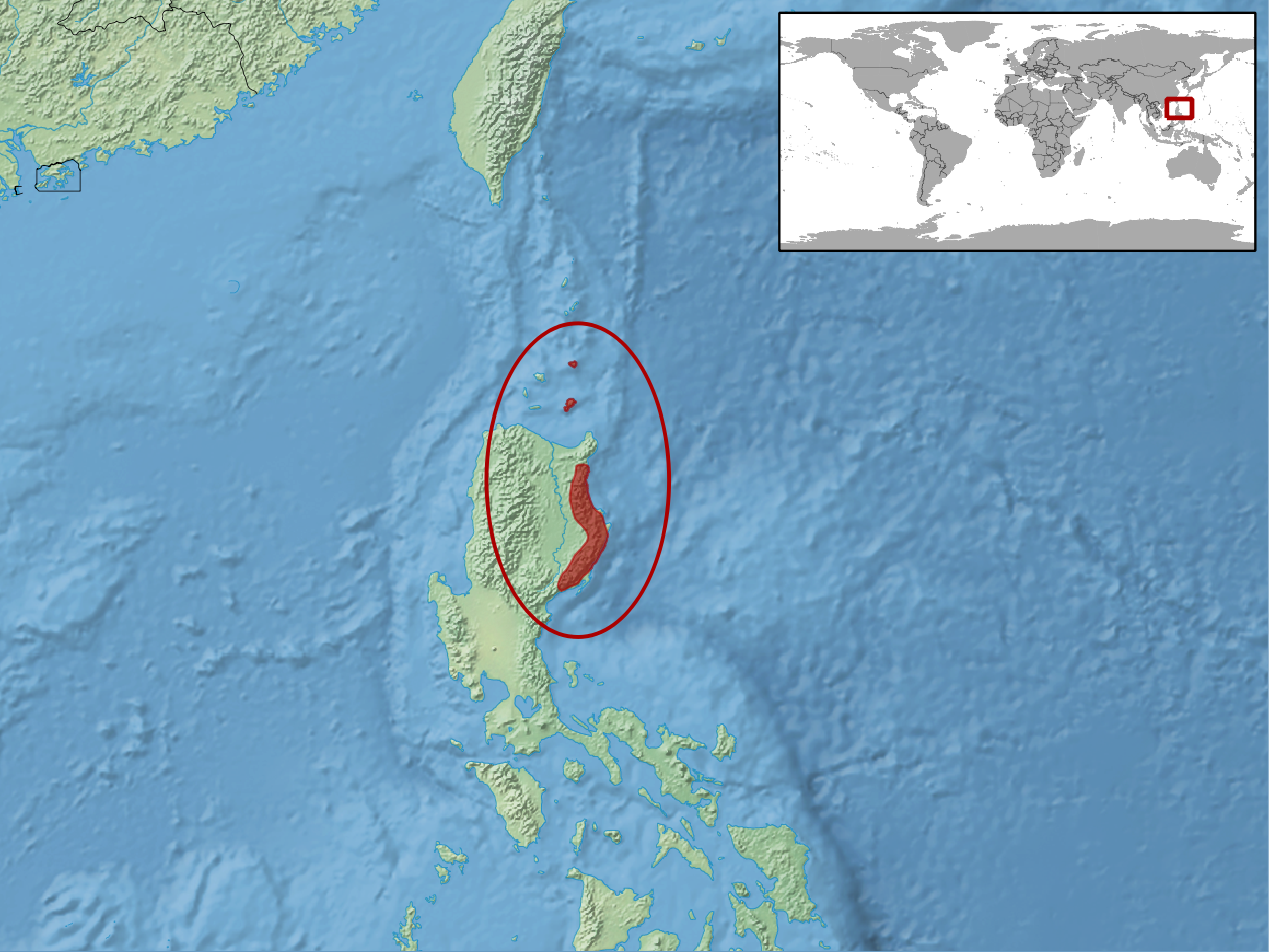 geographic distribution of Boiga philippina (Native: Philippines)